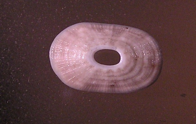 Amblychilepas nigrita Sowerby, 1835, a keyhole limpet from the family Fissurellidae; South Australia